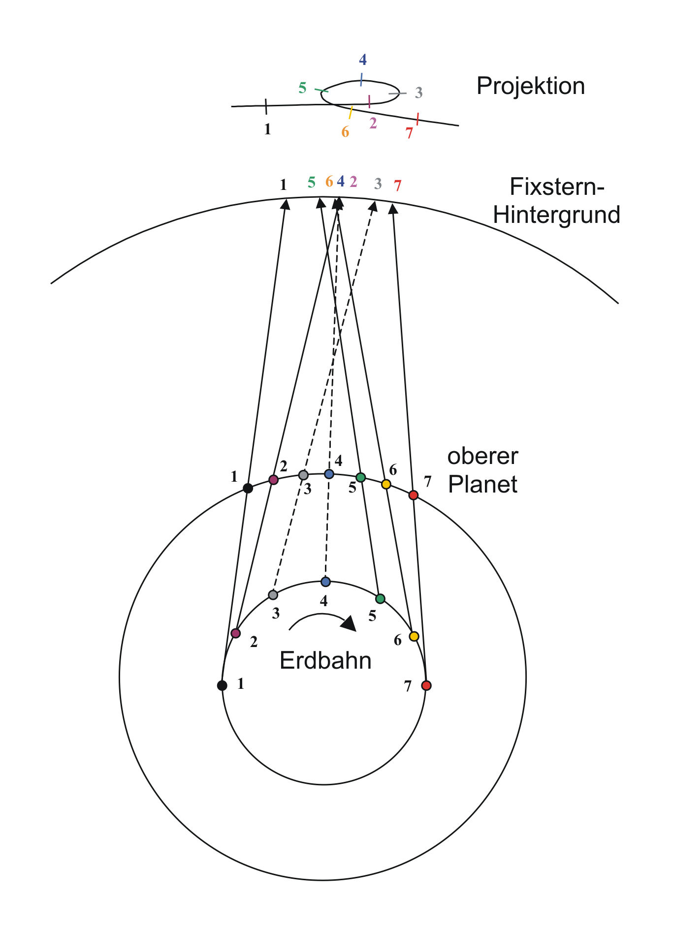 Slope of a superior planet